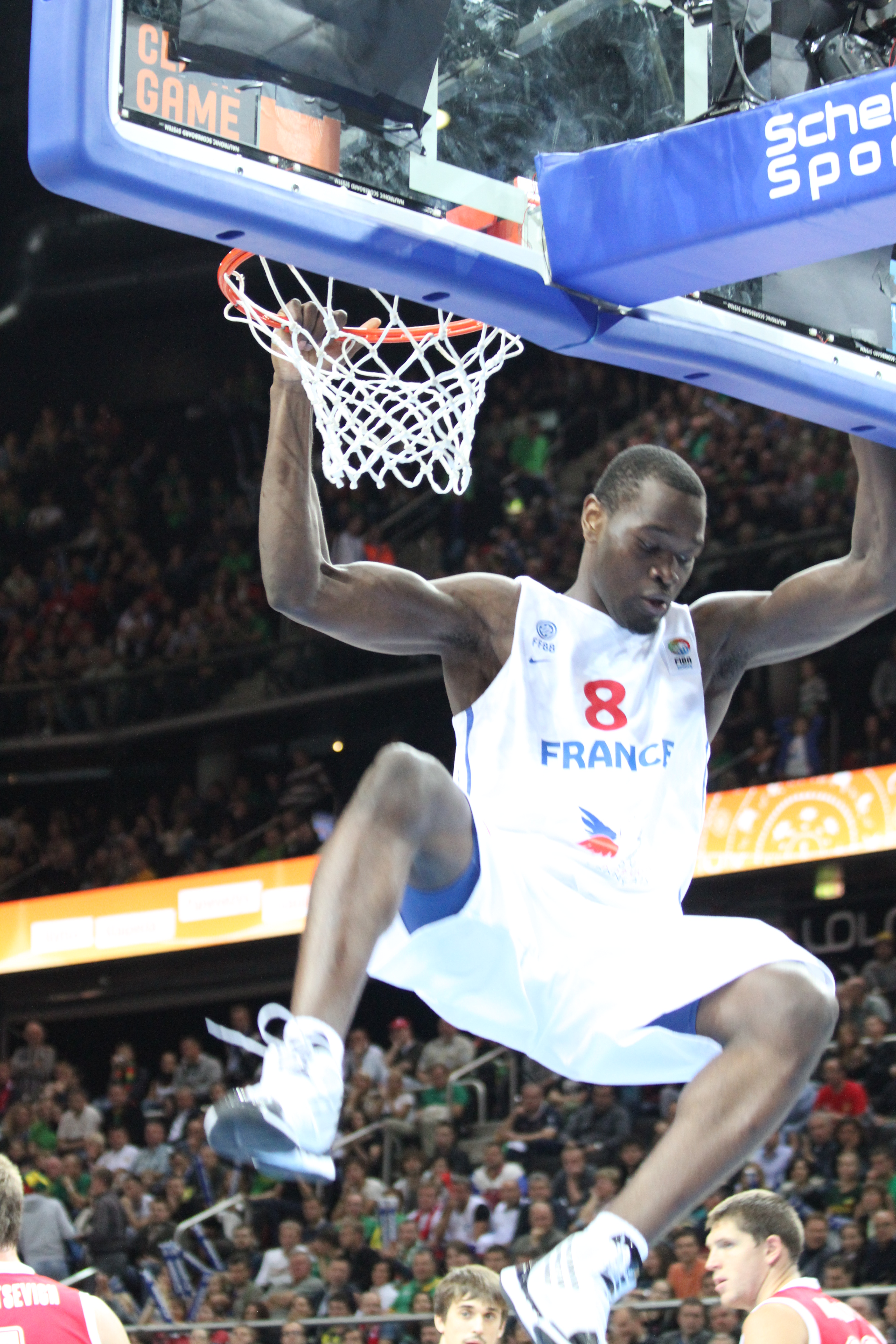 Charles Kahudi at EuroBasket 2011.